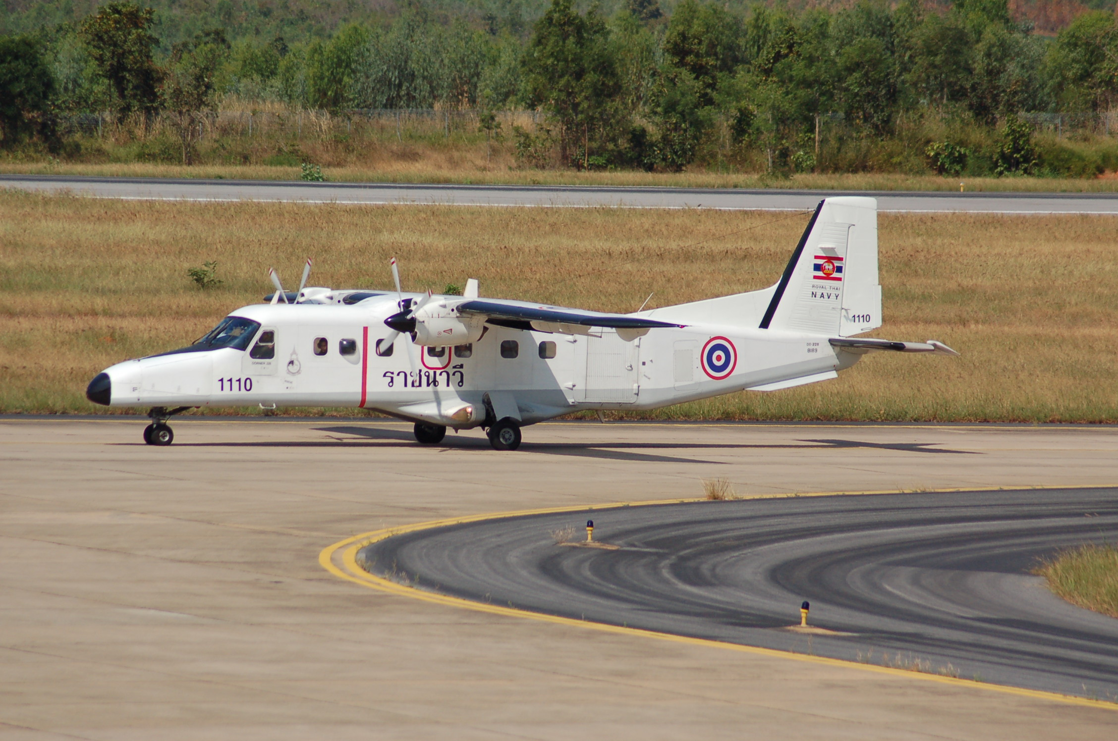 Dornier 228 of the Royal Thai Navy taxiing in at Khon Kaen,Thailand, 06/12/12.